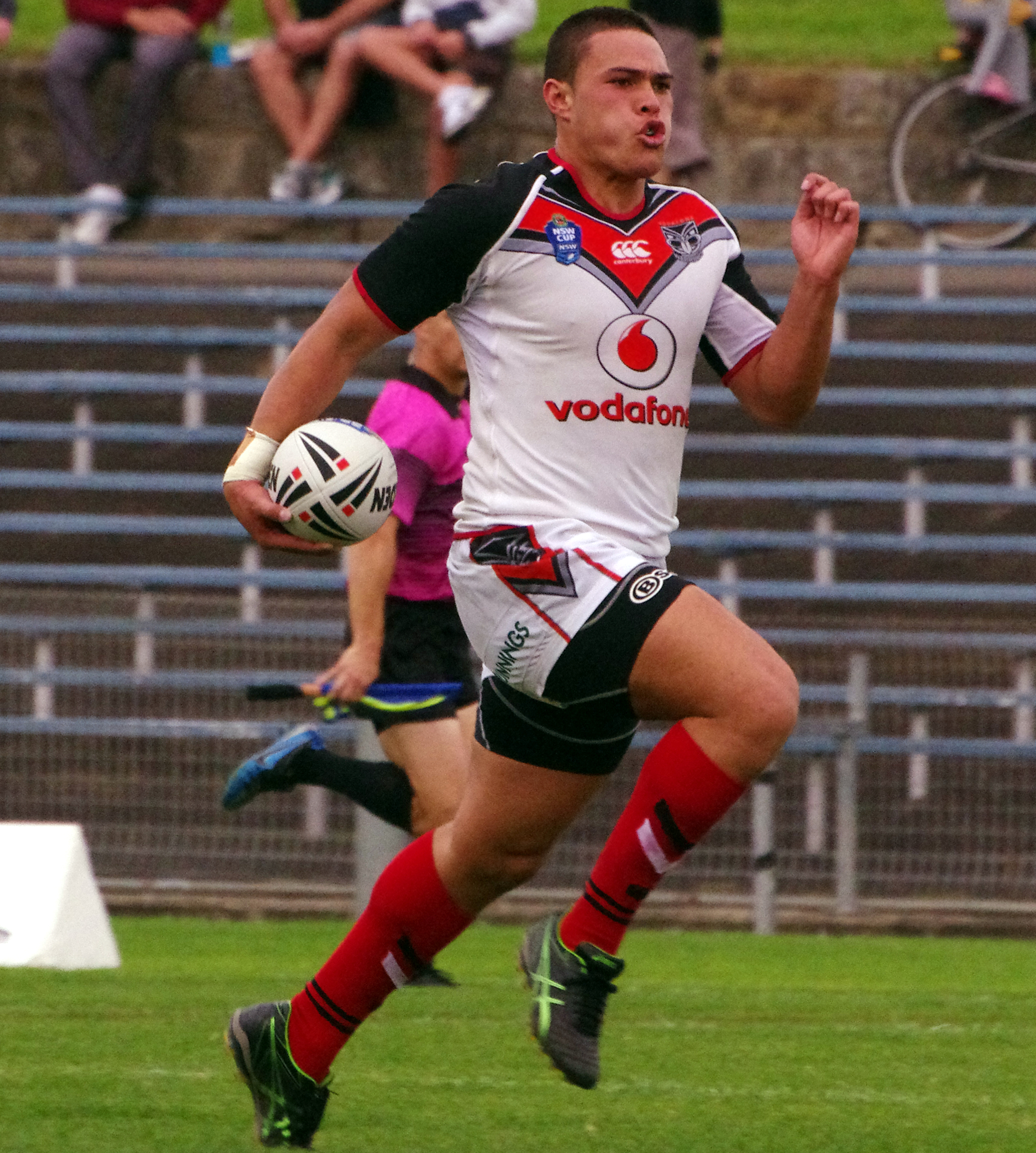 Tuimoala Lolohea